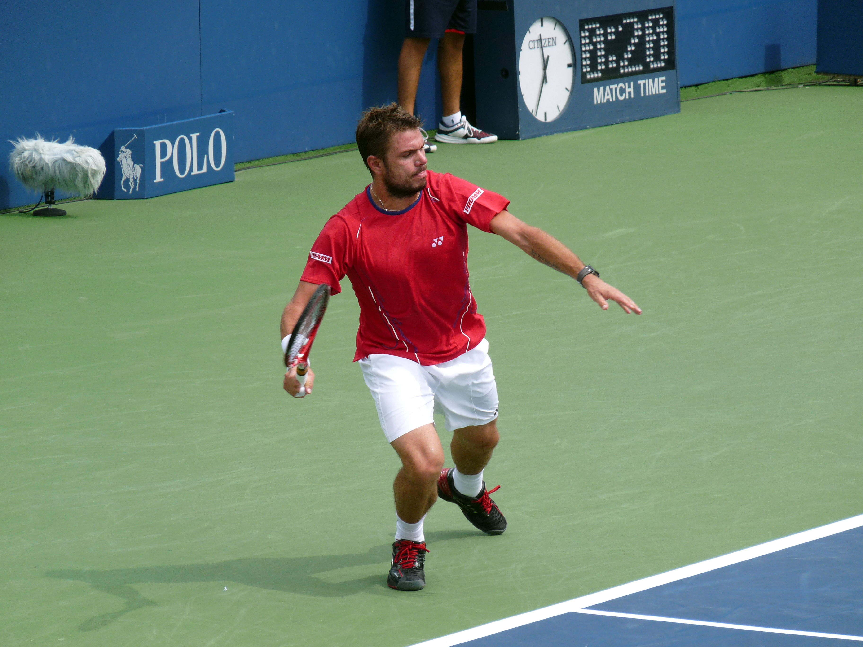 US Open 2013 – Men's Singles 3rd Round (Louis Armstrong Stadium) – Stanislas Wawrinka [9] vs. Cyprus Marcos Baghdatis: 6–3, 6–2, 61–7, 7–67